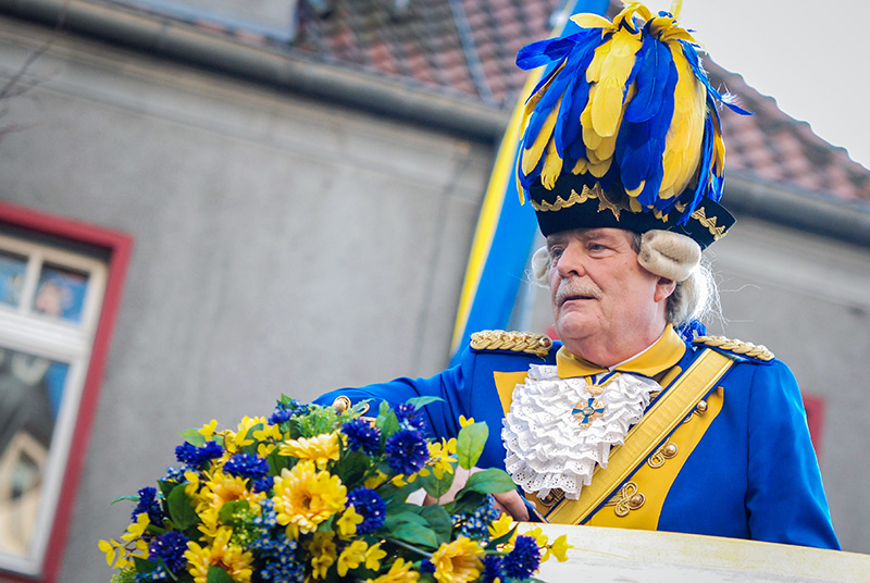 Kölns Ex-Oberbürgermeister Fritz Schramma auf dem Ehrenfelder Veedelszoch 2014